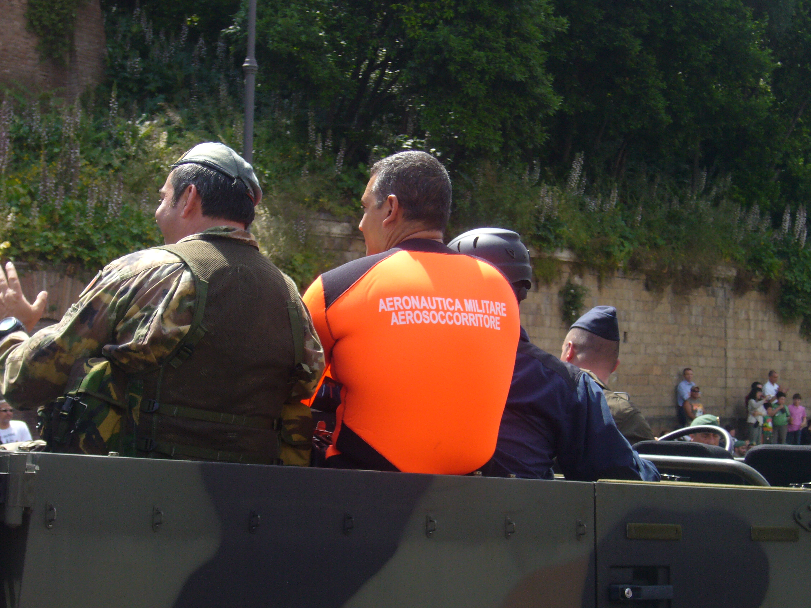 Italian Air Force Rescue swimmer on parade for the 2010 Republic Day